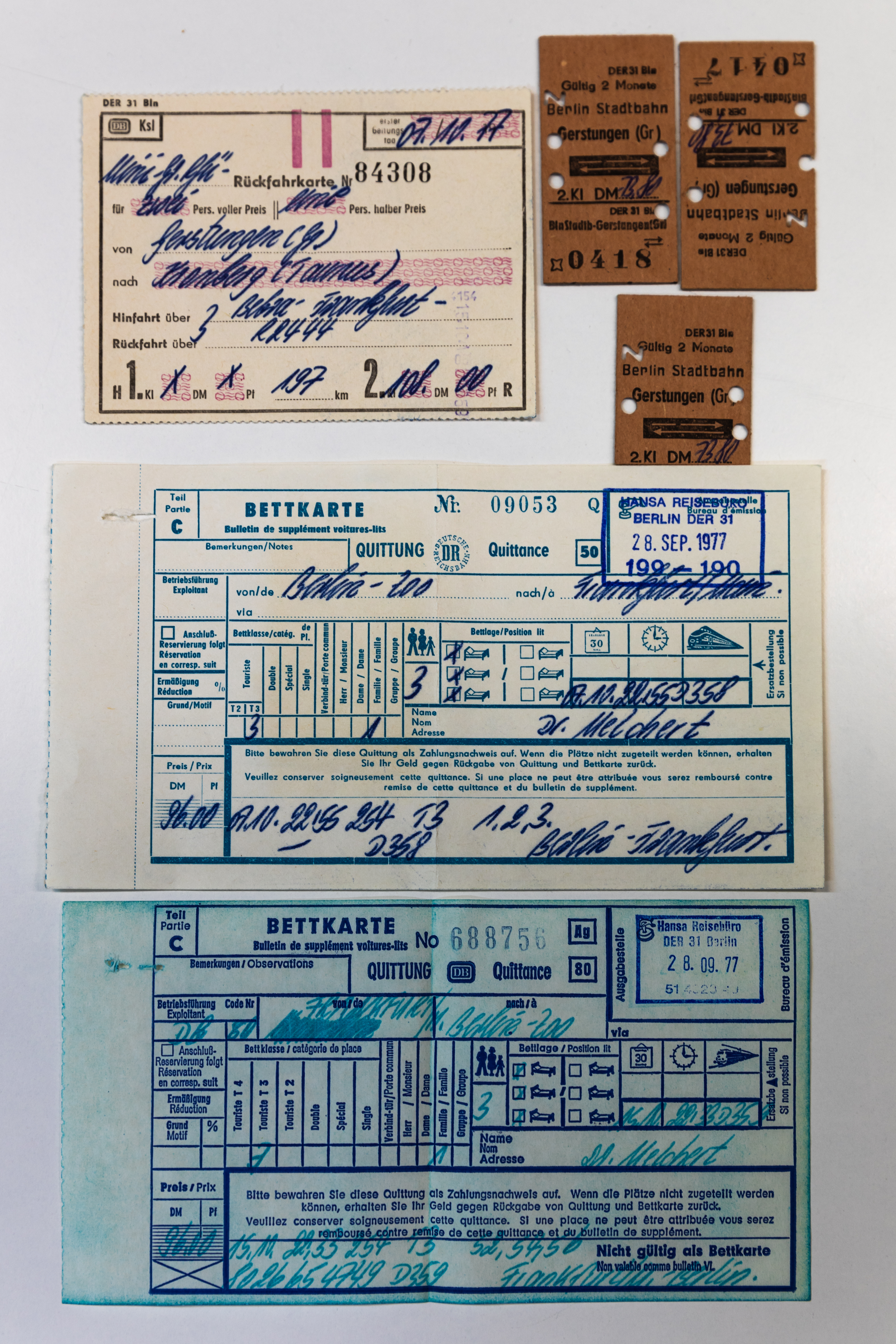 Rail tickets for interzonal train travel in 1977